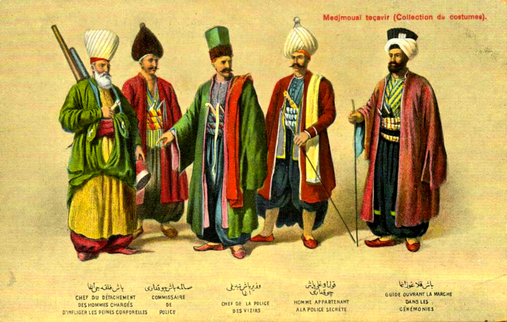 Official uniforms of the Ottomans, Arif Paşa series. Baş Falakacı (Grand Vizier's Chief Punishment Enforcer), Vezir Baş Tebdili (Chief Entourage Officer to the Grand Vizier during private visits), Kuloğlu Baş Cuhadarı (Chief Municipal Collector), Baş Kılavuz (Chief Regimental Sergeant)